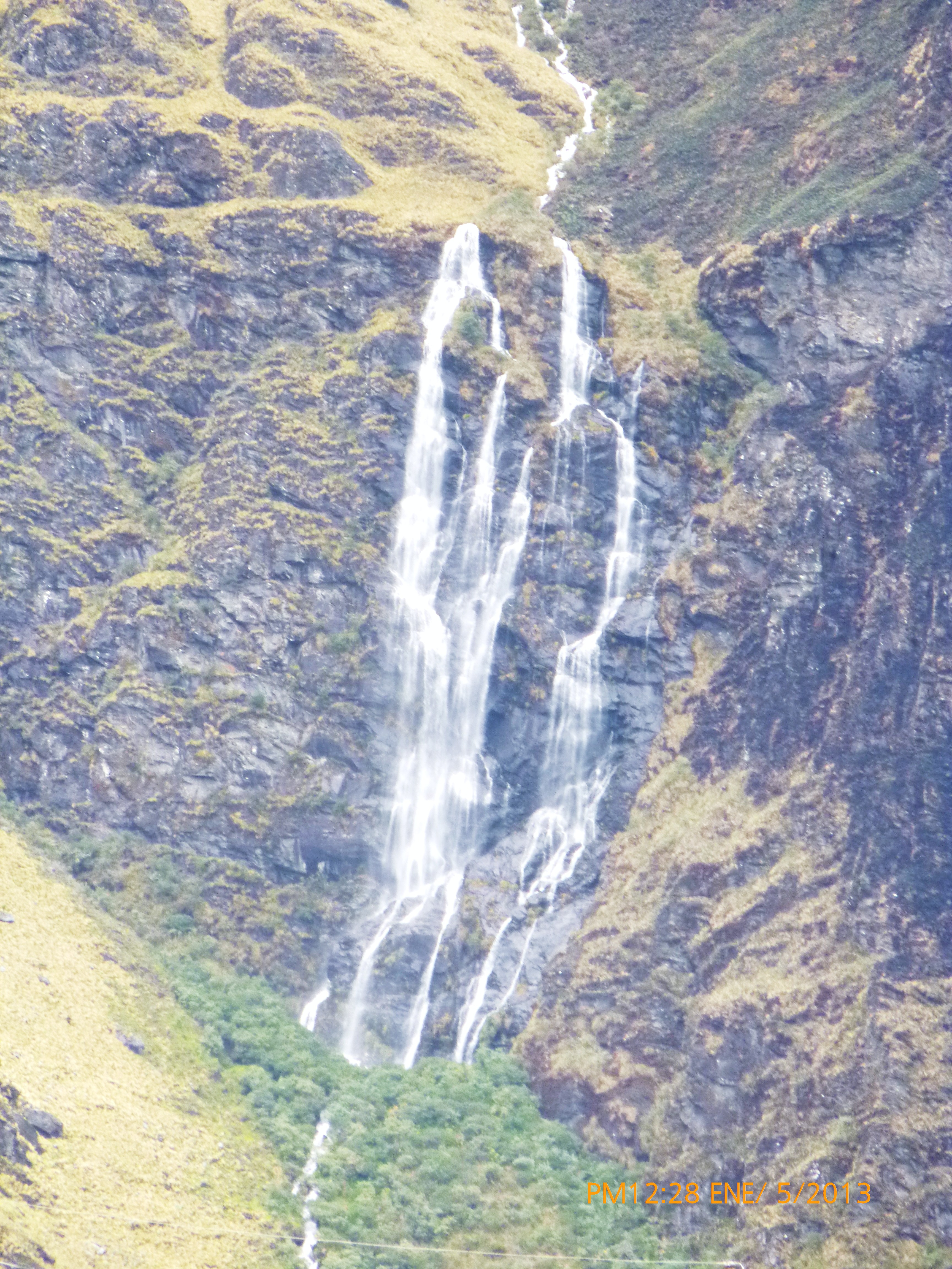 catarata de charajaña al frente de patambuco